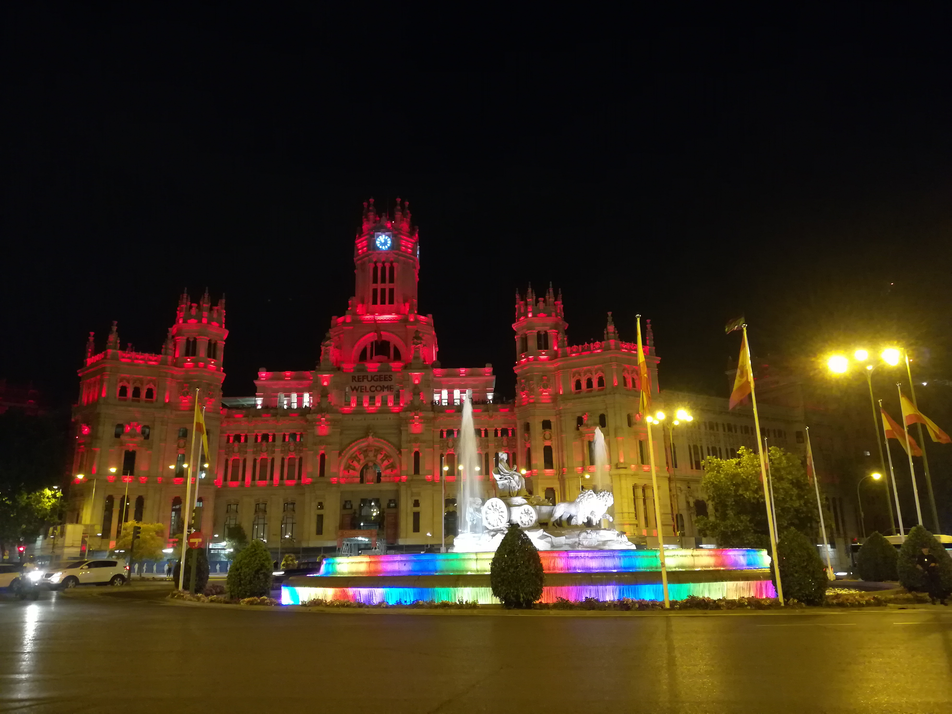 Cibeles Fountain, Madrid, illuminated with the rainbow colours during the celebrations of WorldPride 2017. Behind it, Madrid City Hall appears also illuminated in changing colours.